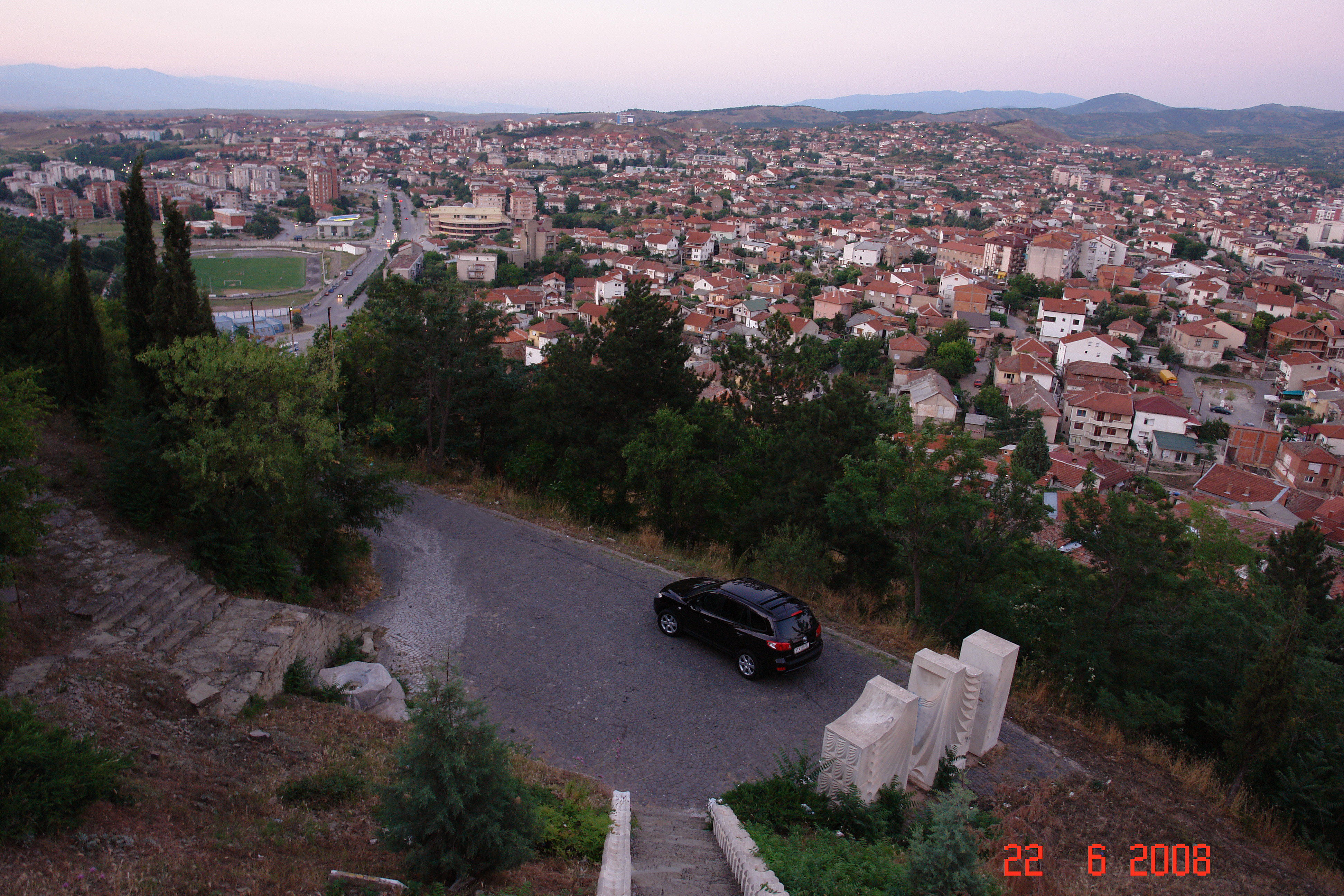 Panoramic view of Stip - Macedonia from ISAR Hill